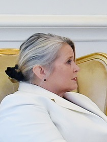 Ilham Aliyev received credentials of incoming Ambassador of Finland